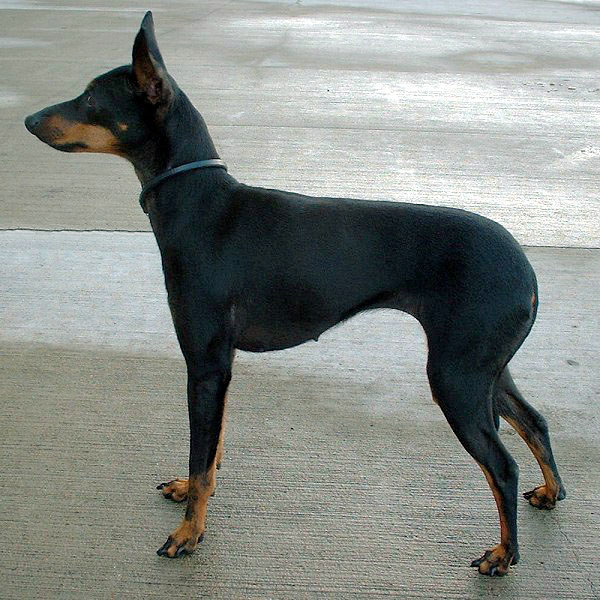 English Toy Terrier (Black & Tan) at the City of Birmingham Championship Dog Show 2003 - "Ch Shanedale All Eyez On Me"